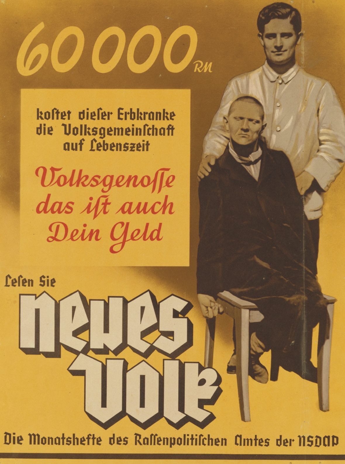 Poster published by Neues Volk ("New People"), a magazine published by the Rassepolitischen Amt der NSDAP (Office of Racial Policy of the Nazi Party), while they were in power. The poster says: "60 000 RM is what this person suffering from hereditary illness costs the community in his lifetime. Fellow citizen, that is your money too. Read Neues Volk. The monthly magazine of the Office of Racial Policy of the NSDAP"